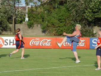 Recreational Aussie Rules Football Game